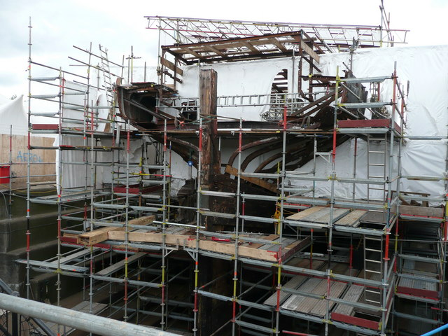 Cutty Sark under restoration after being damaged by fire